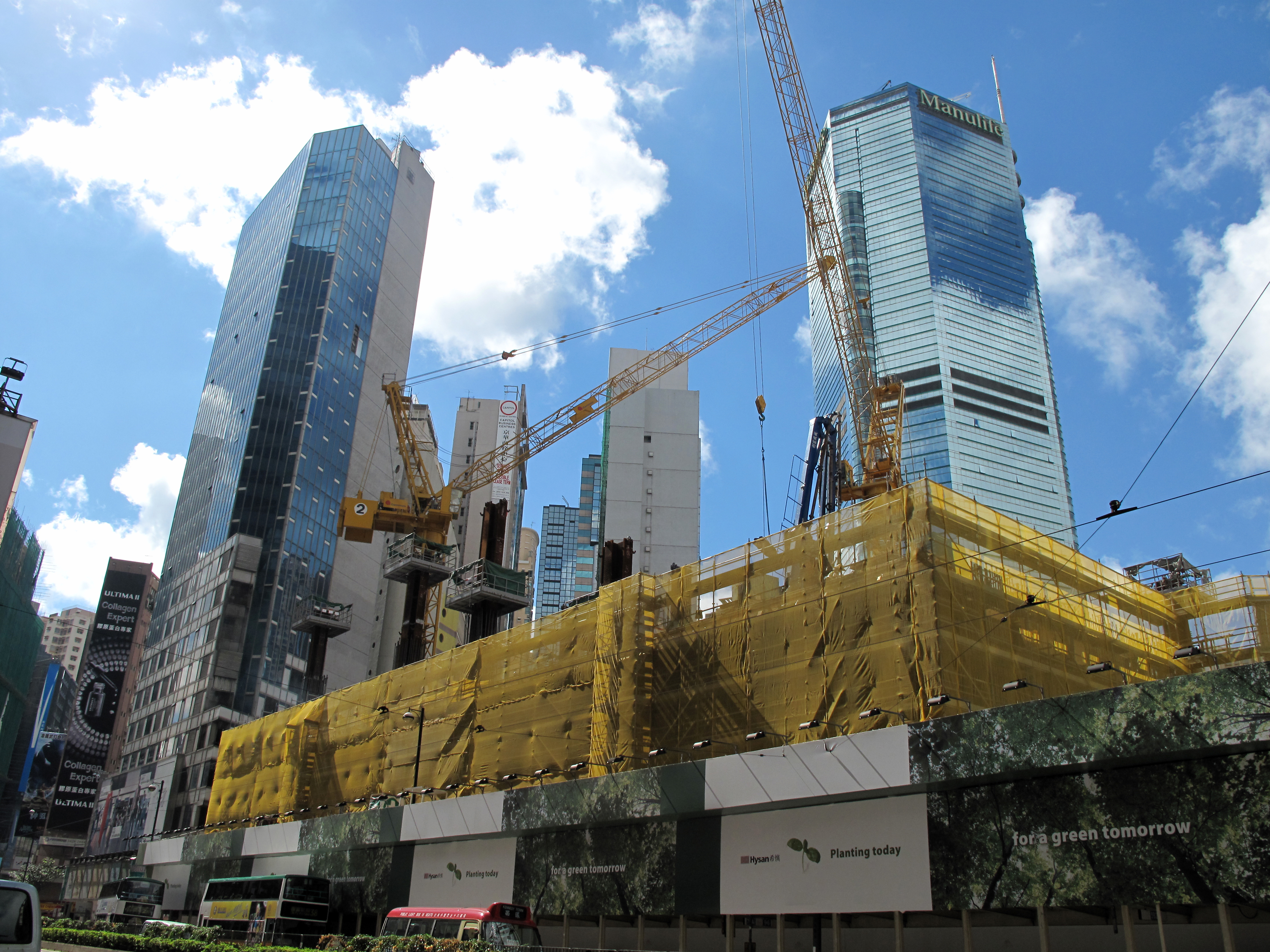 Photo of Hysan Place